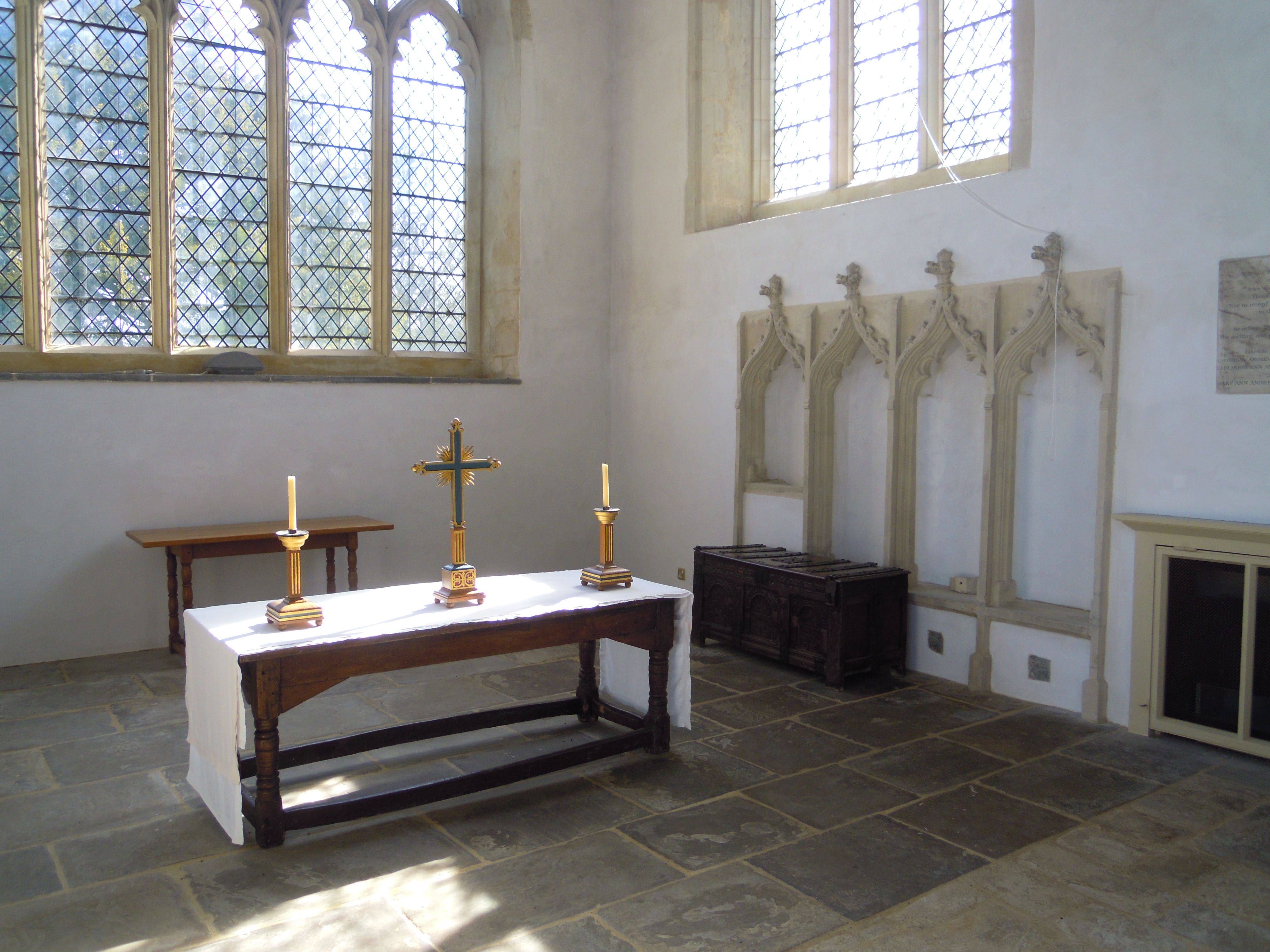 The Sanctuary and sedilia in the Church of St Mary the Virgin, Ashwell